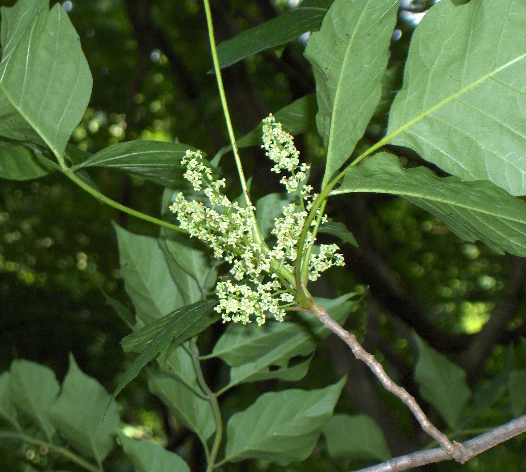 photo by John Knouse, May 2005